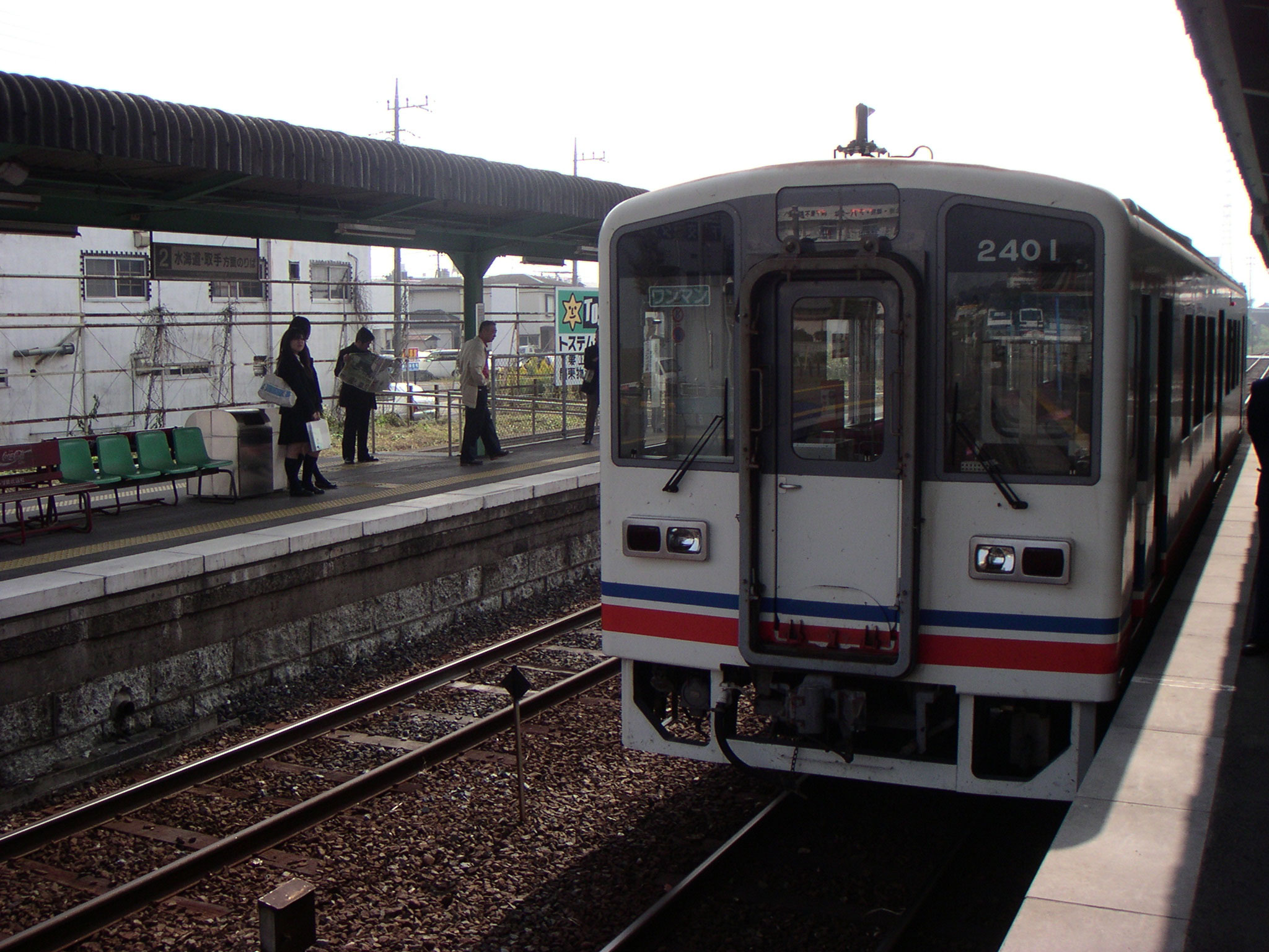 Shimotsuma Station